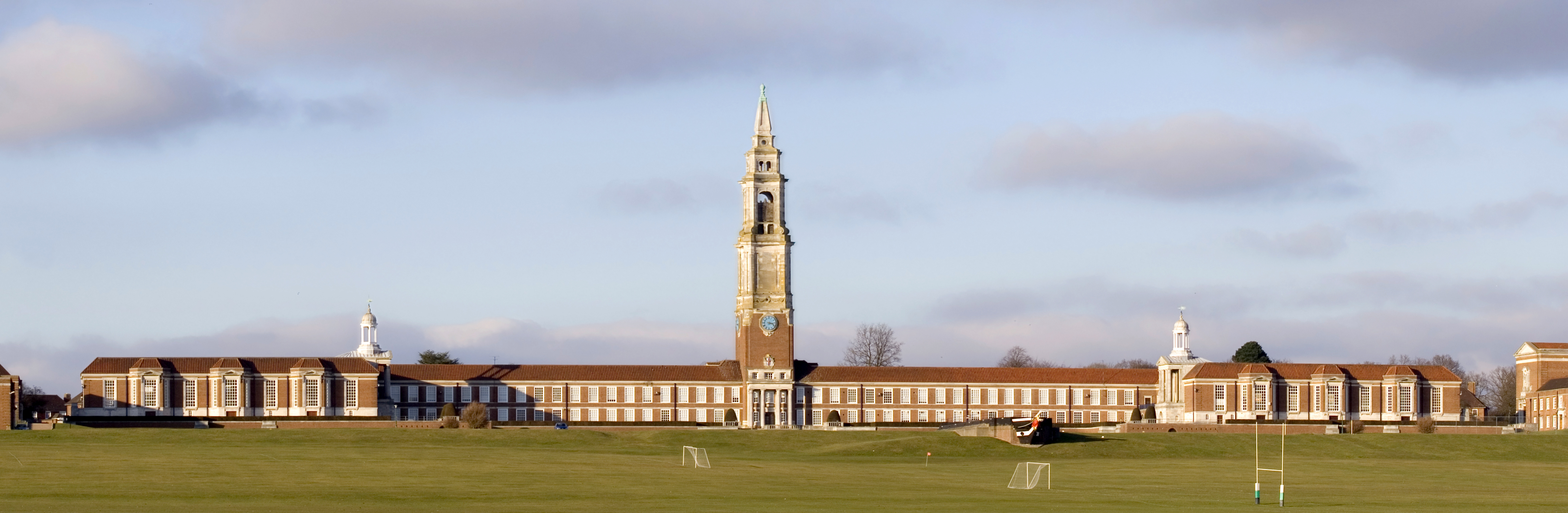 The back of the main building at the Royal Hospital School, Holbrook. It is a few miles south west of Ipswich, Suffolk, UK.